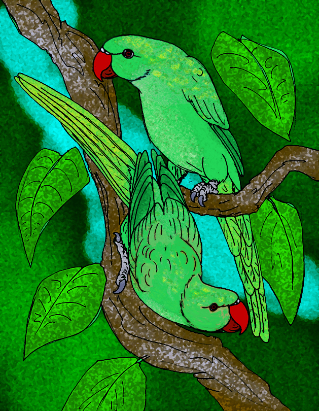 My reconstruction of the Rodrigues Parrot (Necropsittacus rodericanus). Morphology matches depictions and descriptions in Hume, 2007.